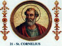 Portraits of Pope Cornelius in Saint Paul Outside the Walls